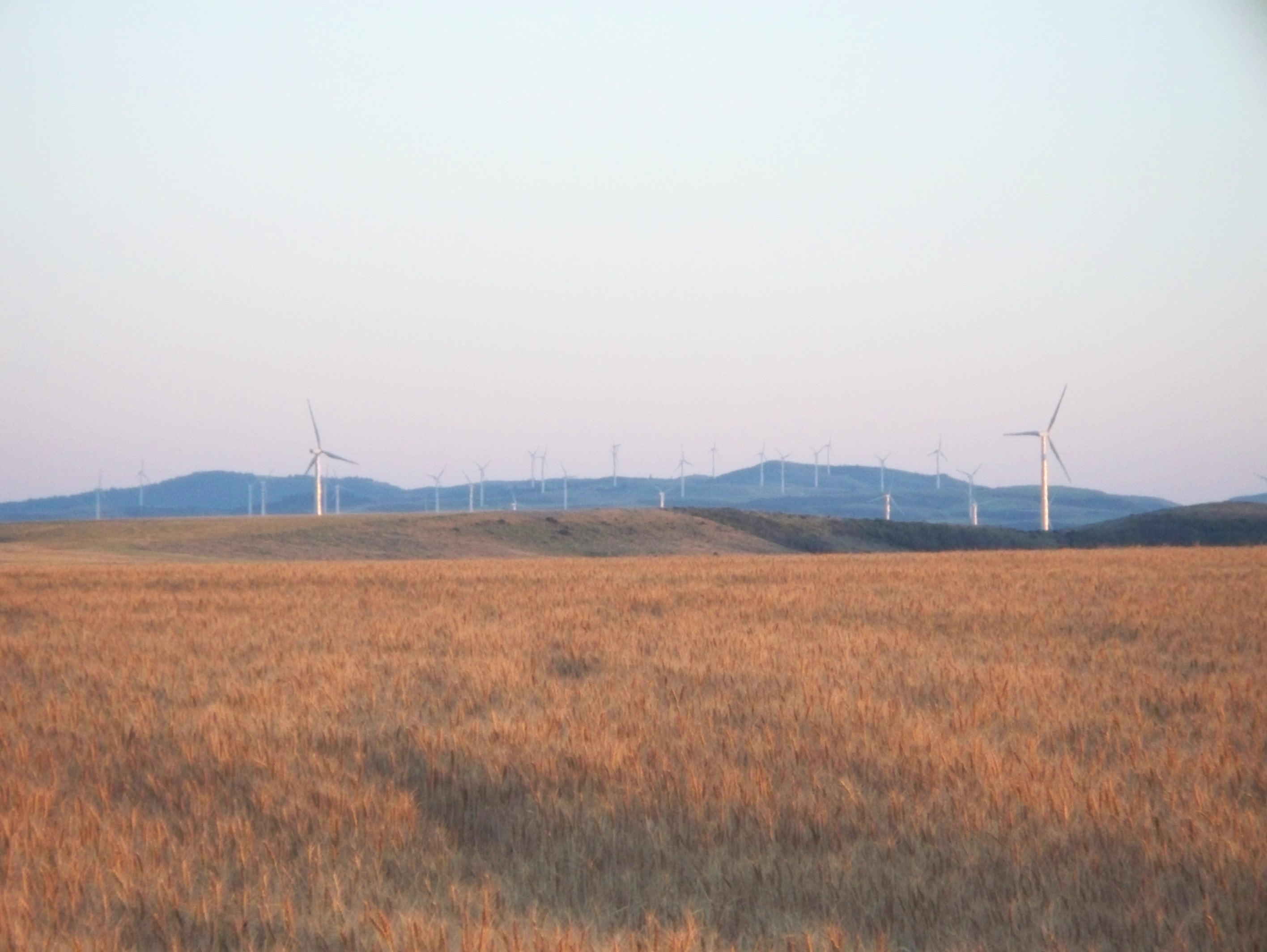 A 43-turbine wind farm near Wolverine canyon.